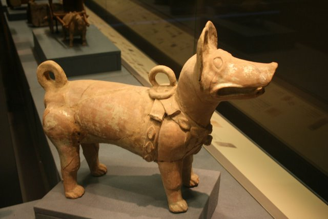 A Chinese Western Han Dynasty (202 BC – 9 AD) pottery figurine of a dog with a harness.